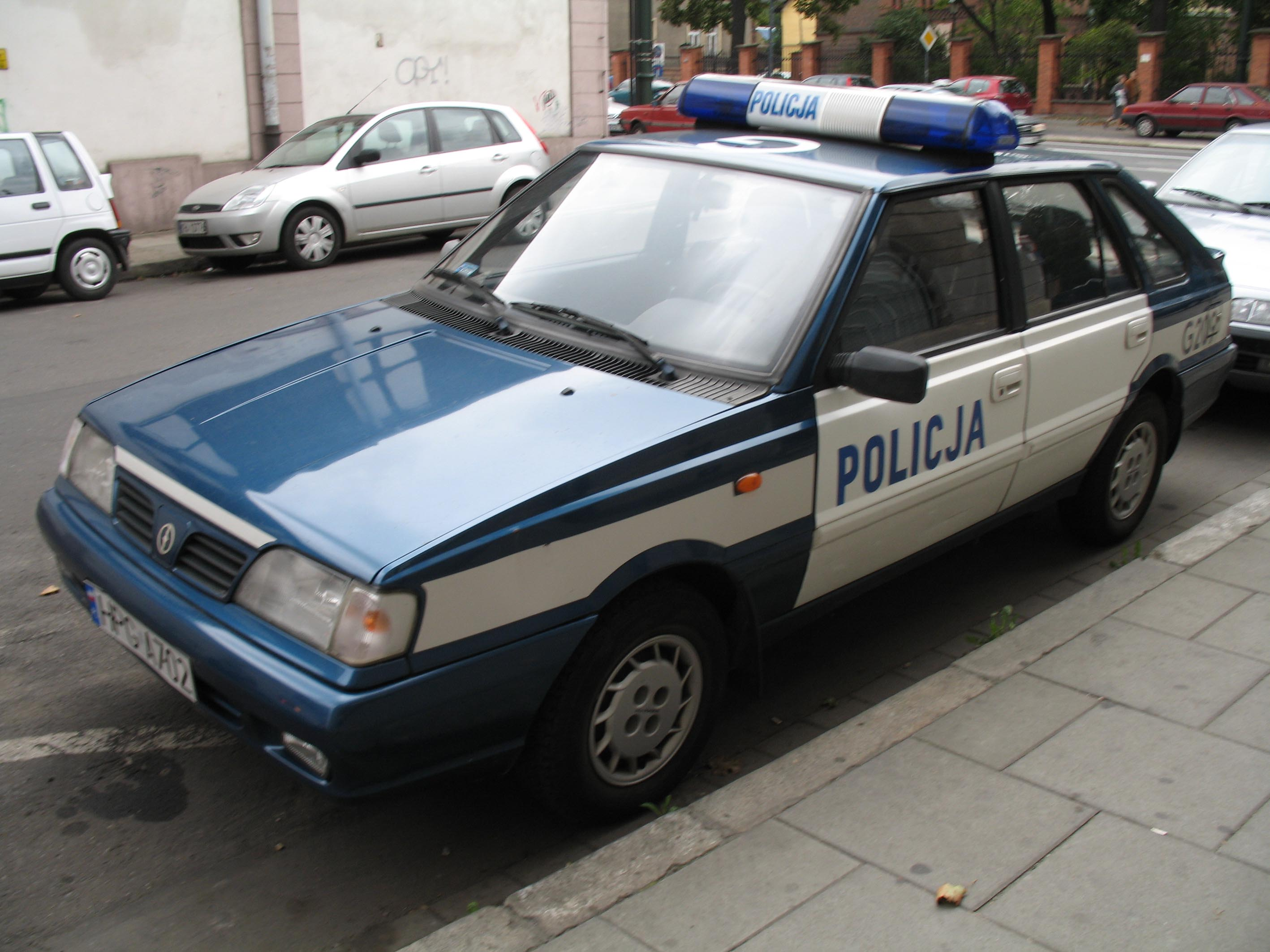 Daewoo-FSO Polonez Caro Plus police car in Kraków, Poland.